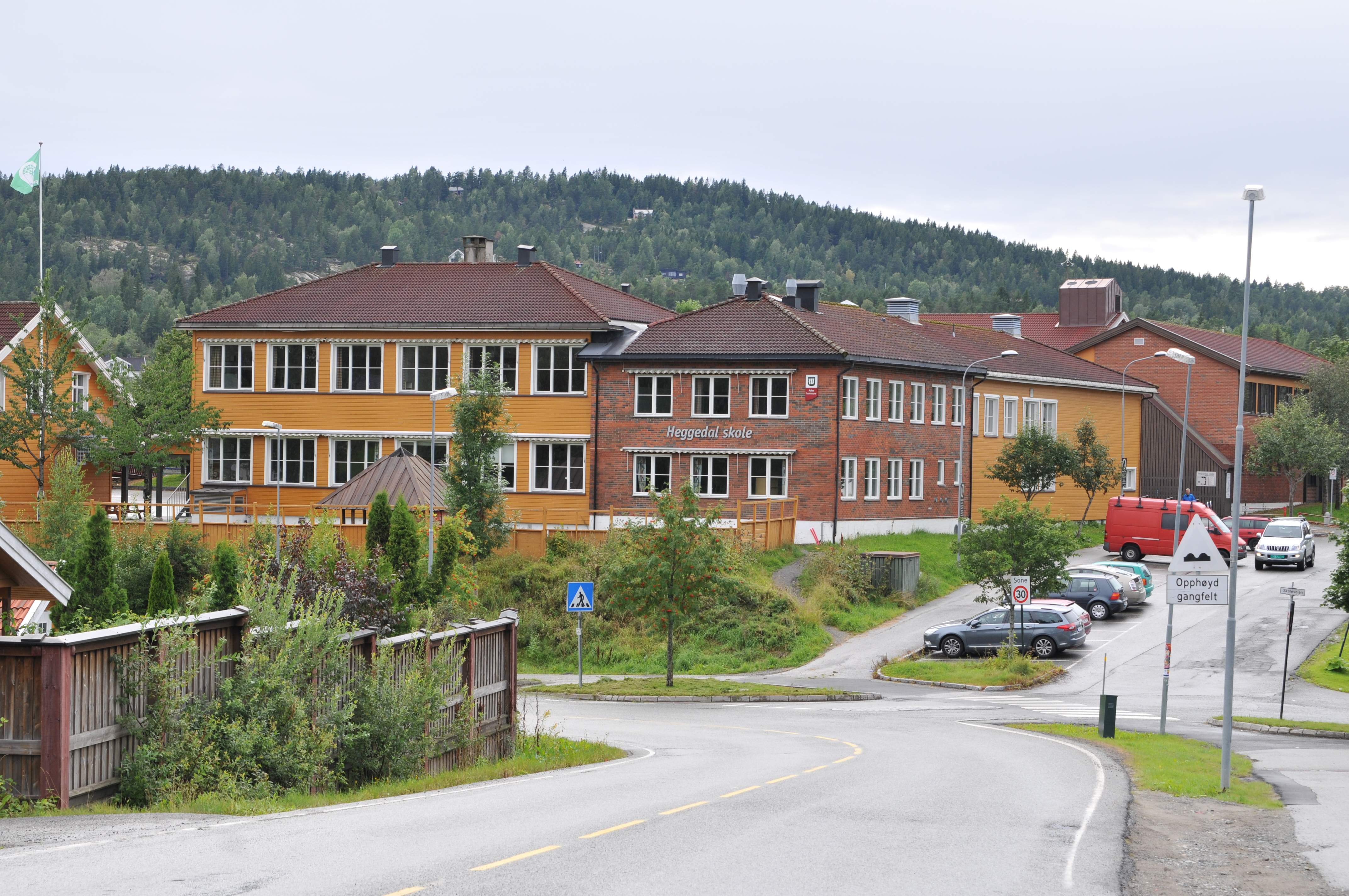 Heggedal skole in Asker from Røykenveien with Vollenveien in the foreground.